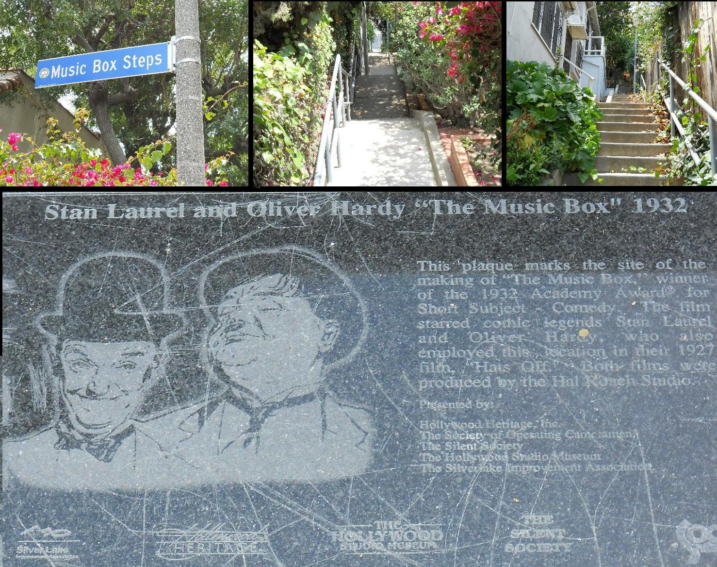 Filming location for Laurel and Hardy classic comedy "The Music Box" (1932) in Silver Lake, Los Angeles, California. Historic plaque, photos of steps, and sign.